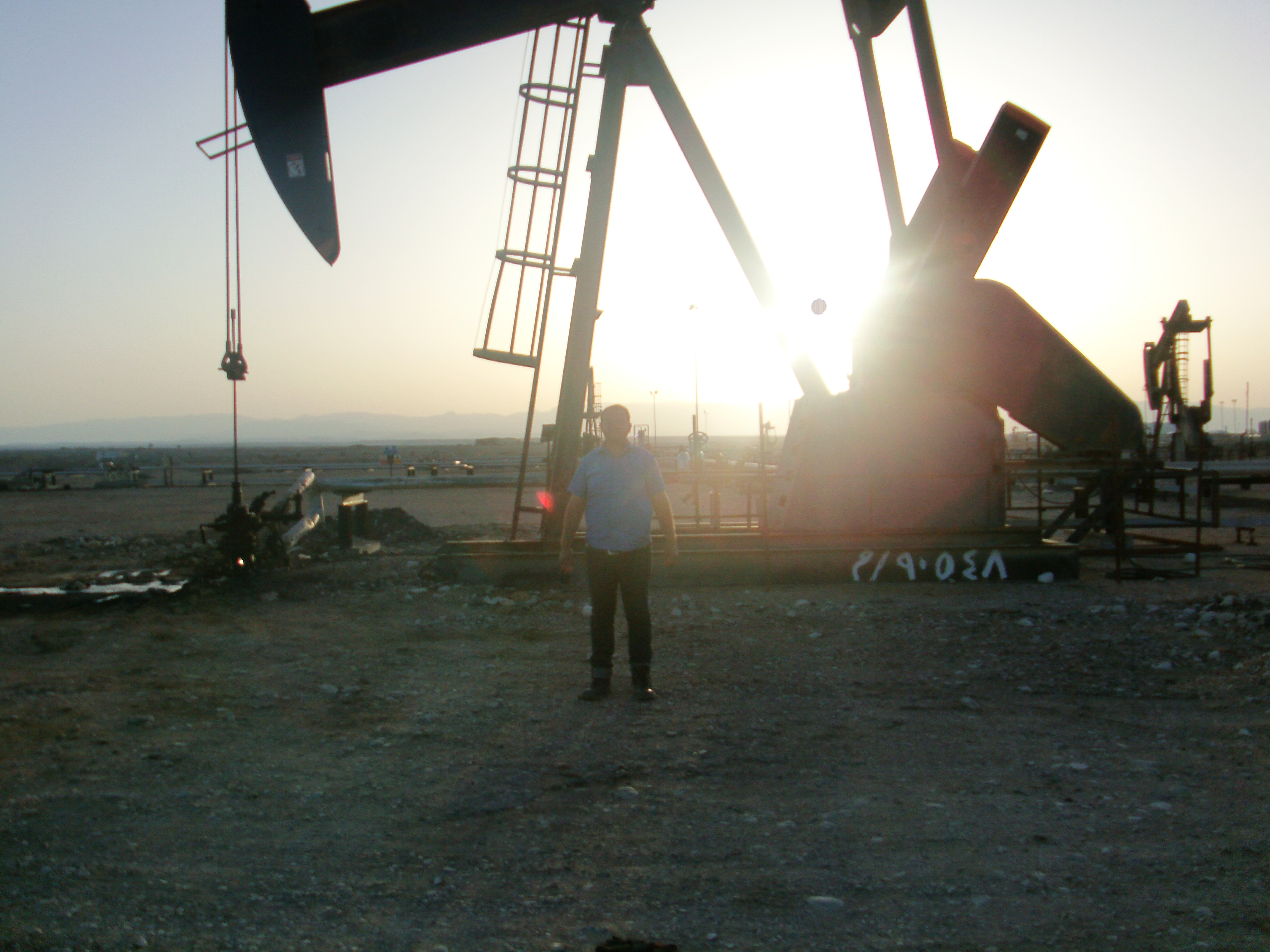 A PumpJack for petroleum works in Ras Ghareb, Egypt.